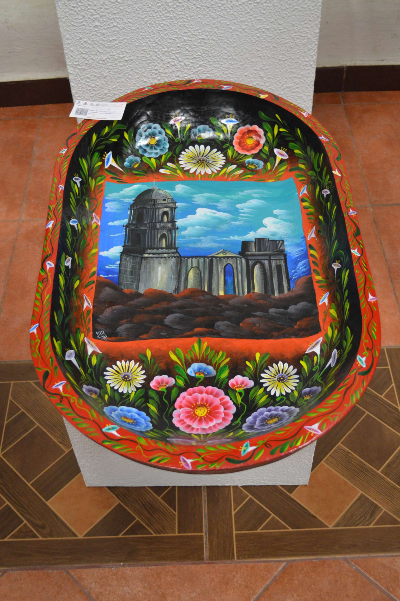 Maque plate from Santa Fe de la Laguna competing at the state handcrafts competition at the Tianguis de Domingo de Ramos in Uruapan, Michoacan, Mexico